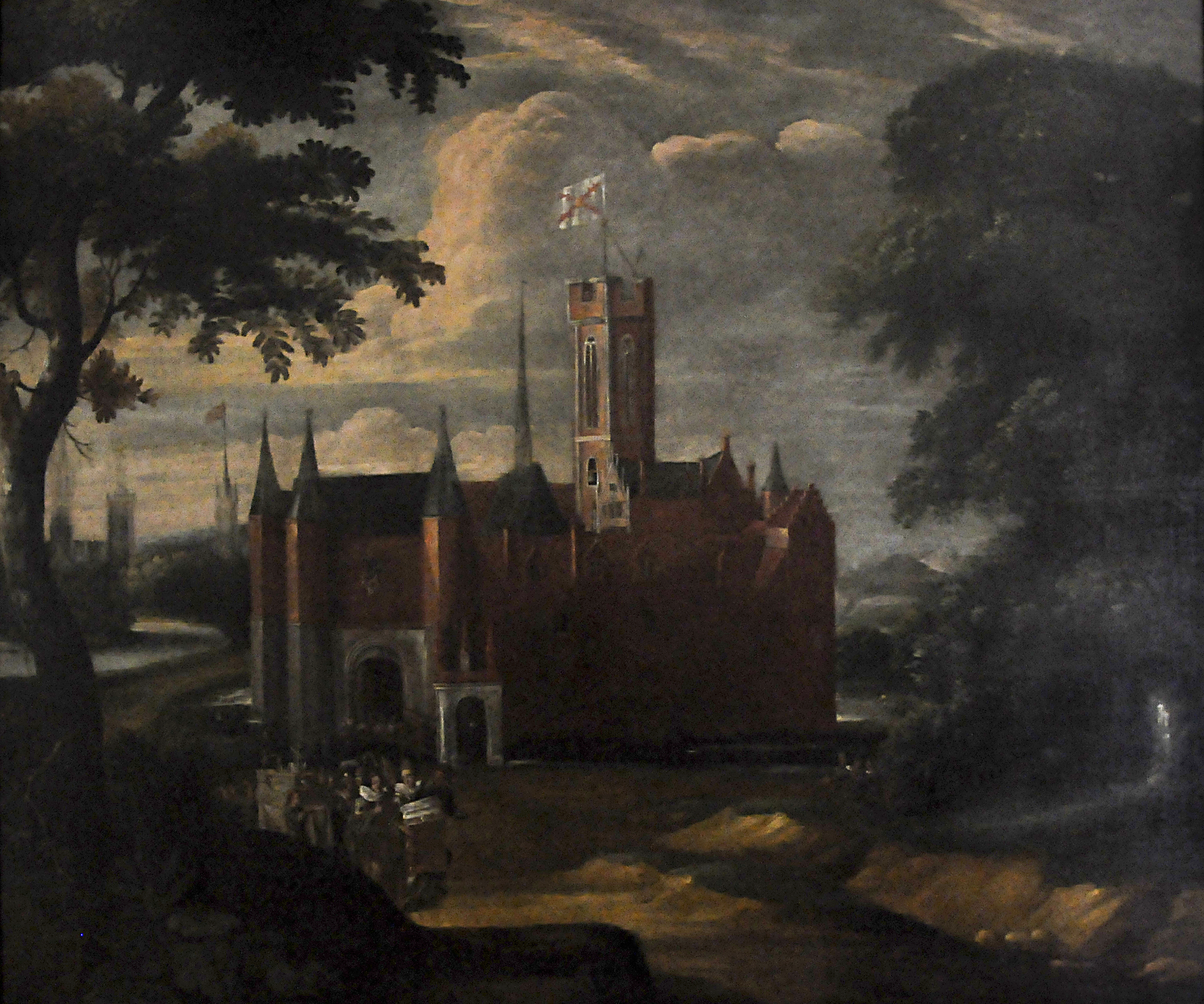 Emperor Charles on his way to be baptised, leaving the Prinsenhof, Gent, Belgium - Museum STAM, Gent